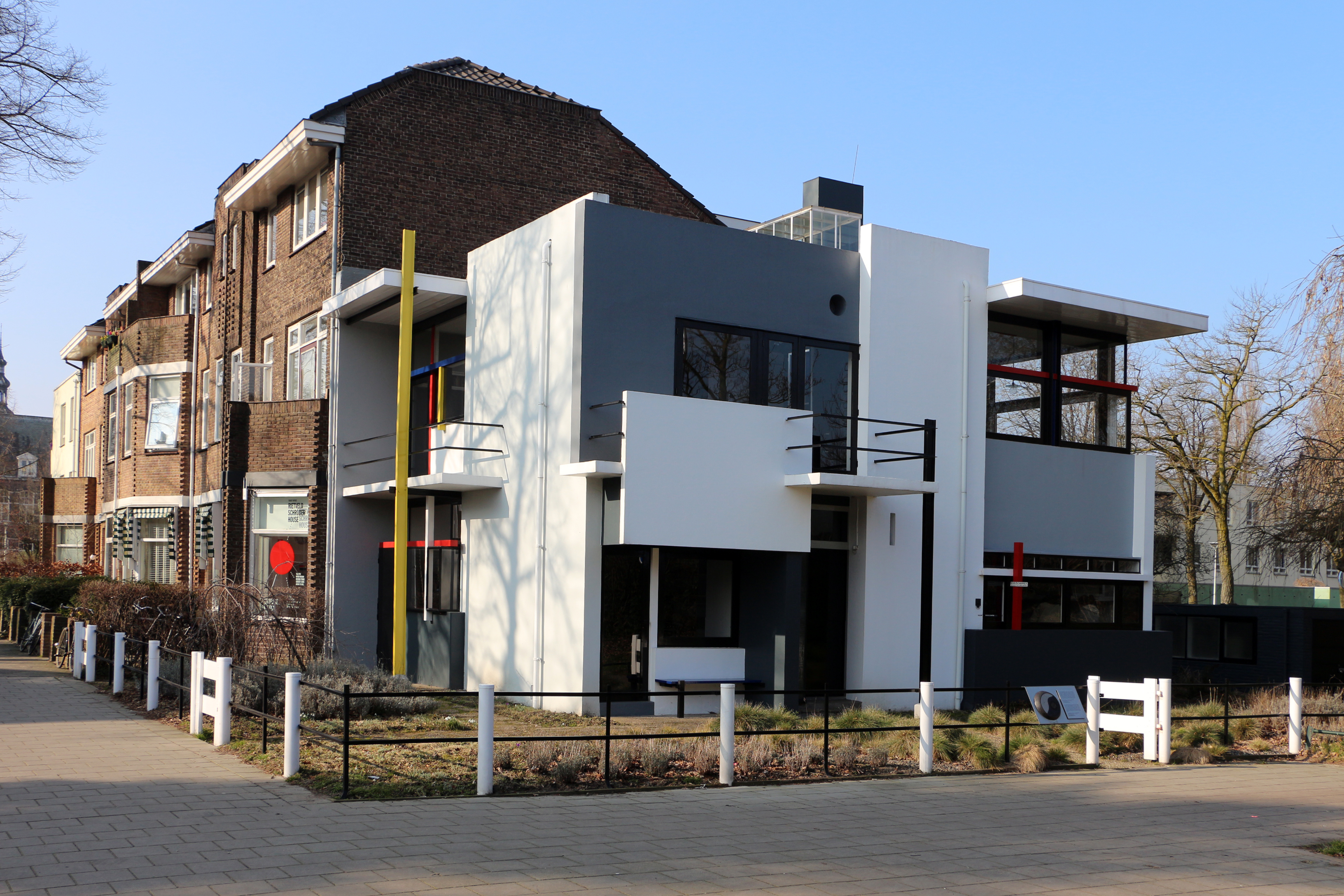 Rietveld Schröder House